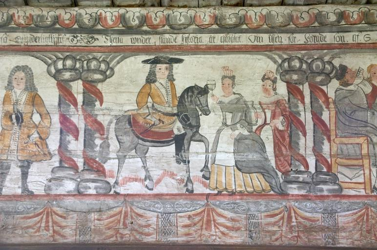 Painting inside Ulvö gamla kapell on Ulvön island, Örnsköldsvik municipality, Sweden.